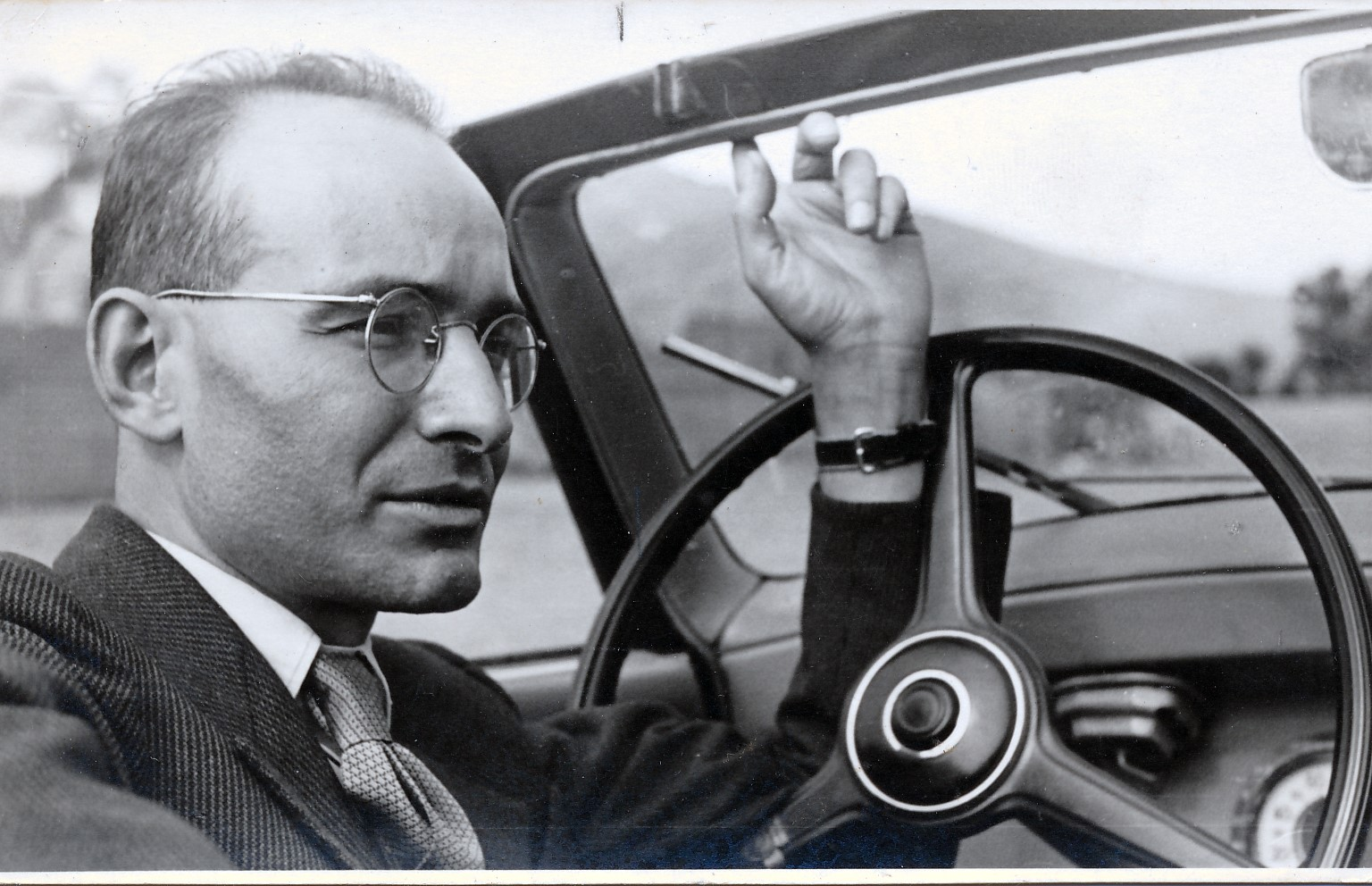 Antonello Gerbi